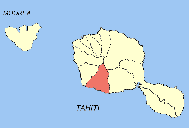 Map of Tahitian communes — Papara